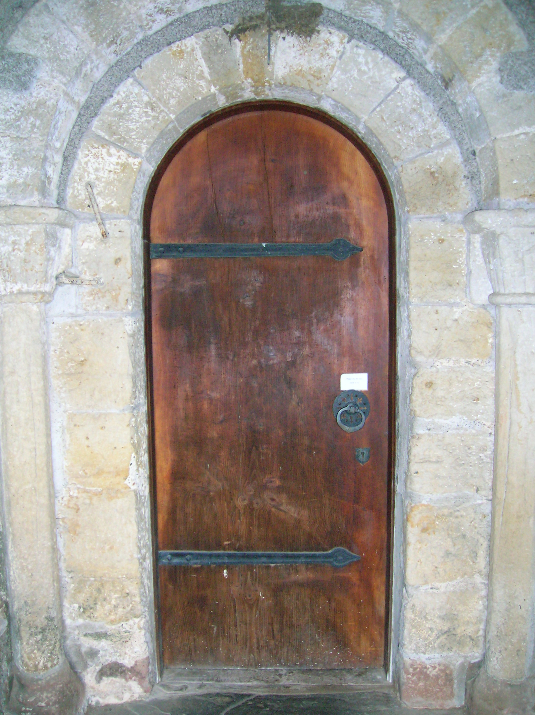 Stobo Kirk door made from a single piece of Cedar of Lebanon from the Dawyck estate